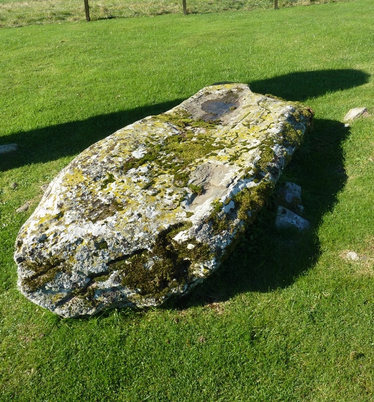 Drumtroddan Standing Stones, Dumfries and Galloway, Scotland. Middle stone.